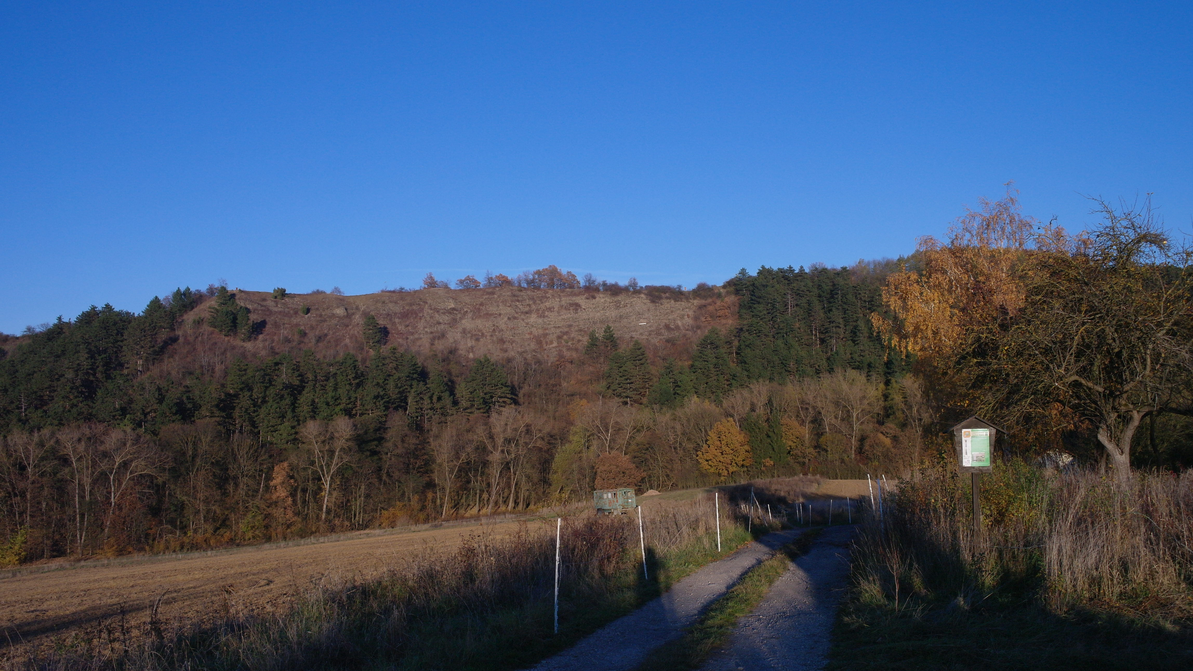 View of the outcrop at Klonk hill which comprises the global boundary stratotype section and point (GSSP) of the base of the Devonian stage. The faint white marking in about the center of the picture indicates bed 20 which includes and defines the base of the Devonian stage.